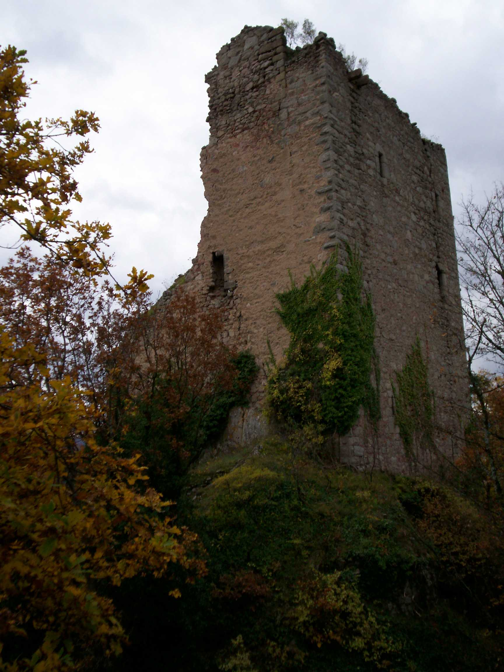 The castel of Ramstein in France